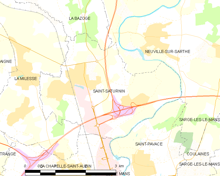 Map of French municipality